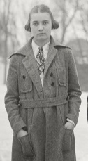 Emily Ripply, Phyllis R Fenner, Hellen Brown, and Edith J Randal at Mount Holyoke College, 1921